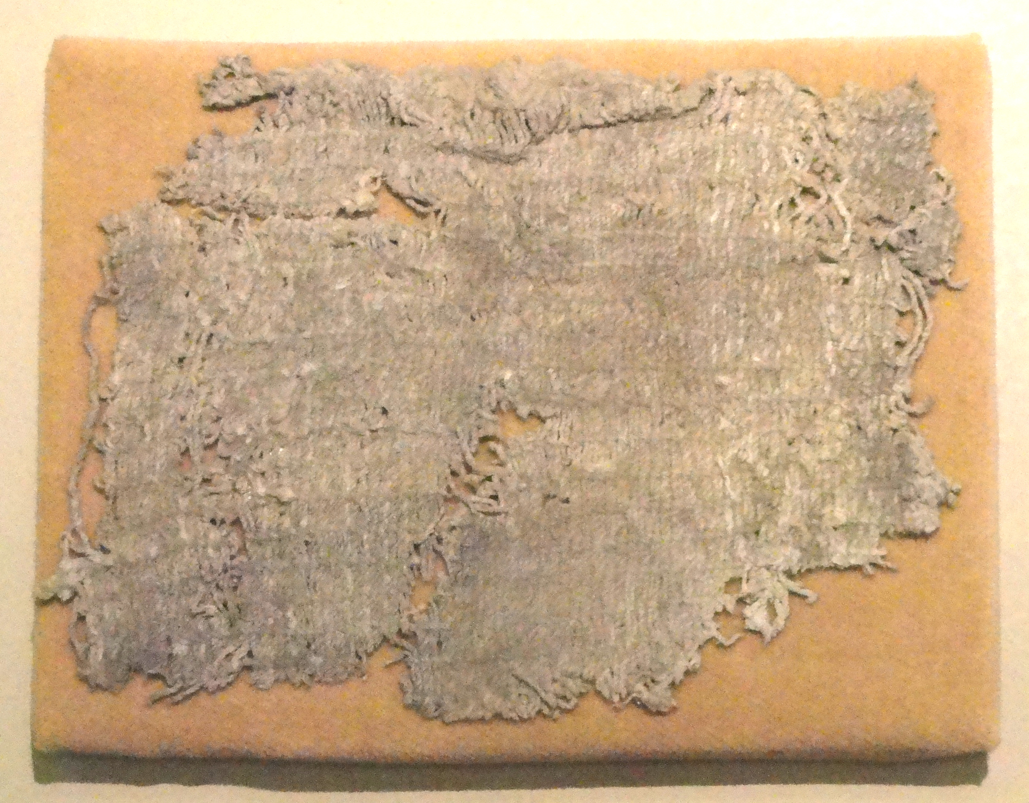 Exhibit in the South American collection of the American Museum of Natural History, Manhattan, New York City, New York, USA.